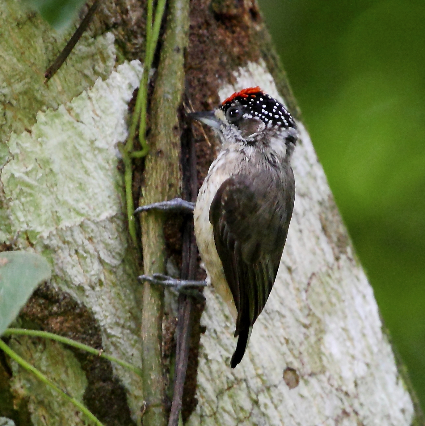 Ochraceus piculet (male) at Guaramiranga, Ceará, Brazil